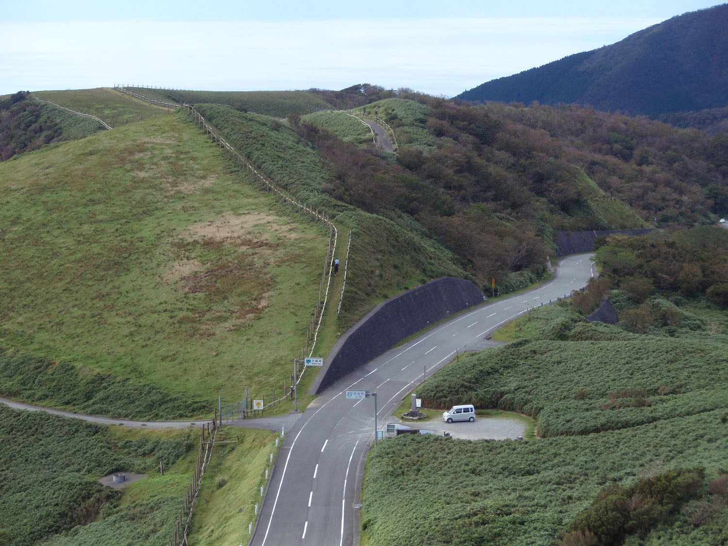 Nishina mountain pass (仁科峠) is located in the east part of Shizuoka prefecture, Japan.